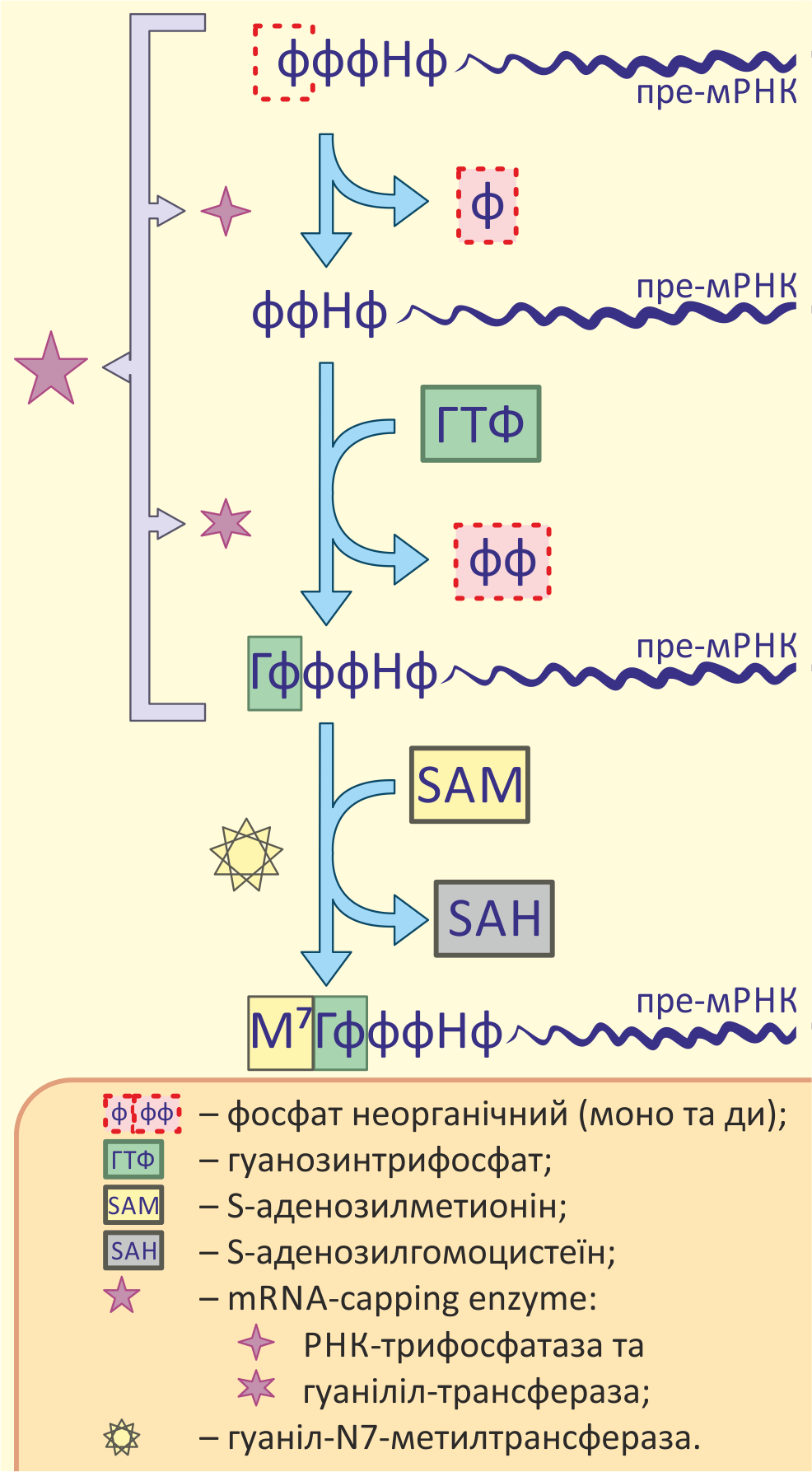 attachment of cap to the 5' end of pre-mRNA. Own work based on illustration from David L. Bentley (March 2014). "Coupling mRNA processing with transcription in time and space". Nature reviews. Genetics 15 (3): 163–175. PMID 24514444..